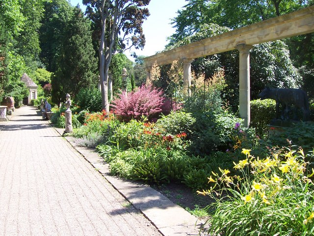 Italian Terrace, Peto Garden at Iford Manor View towards the casita (music summerhouse). On top terrace above the Manor House.